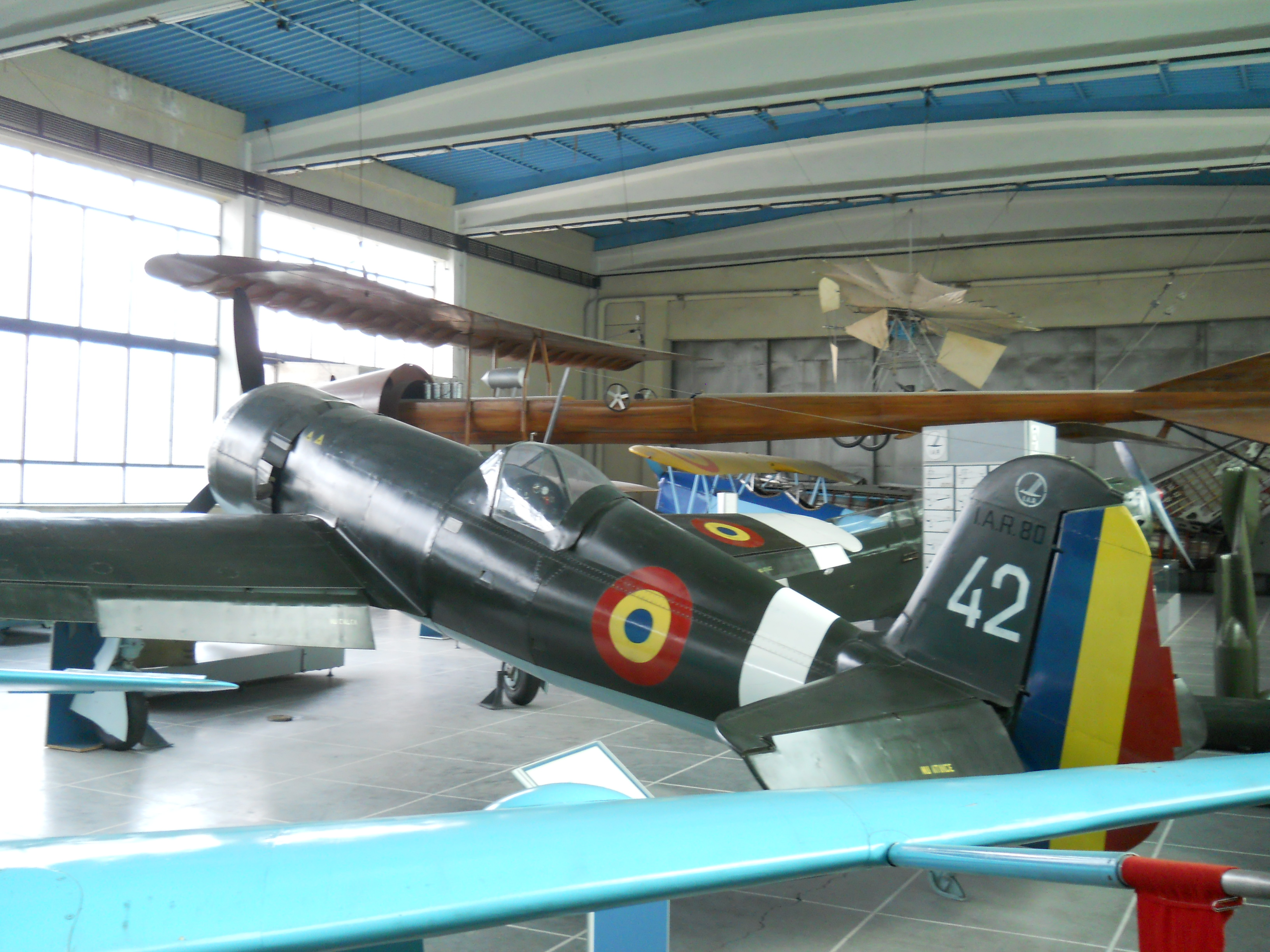 IAR 80 replica at King Ferdinand National Military Museum in Bucharest.